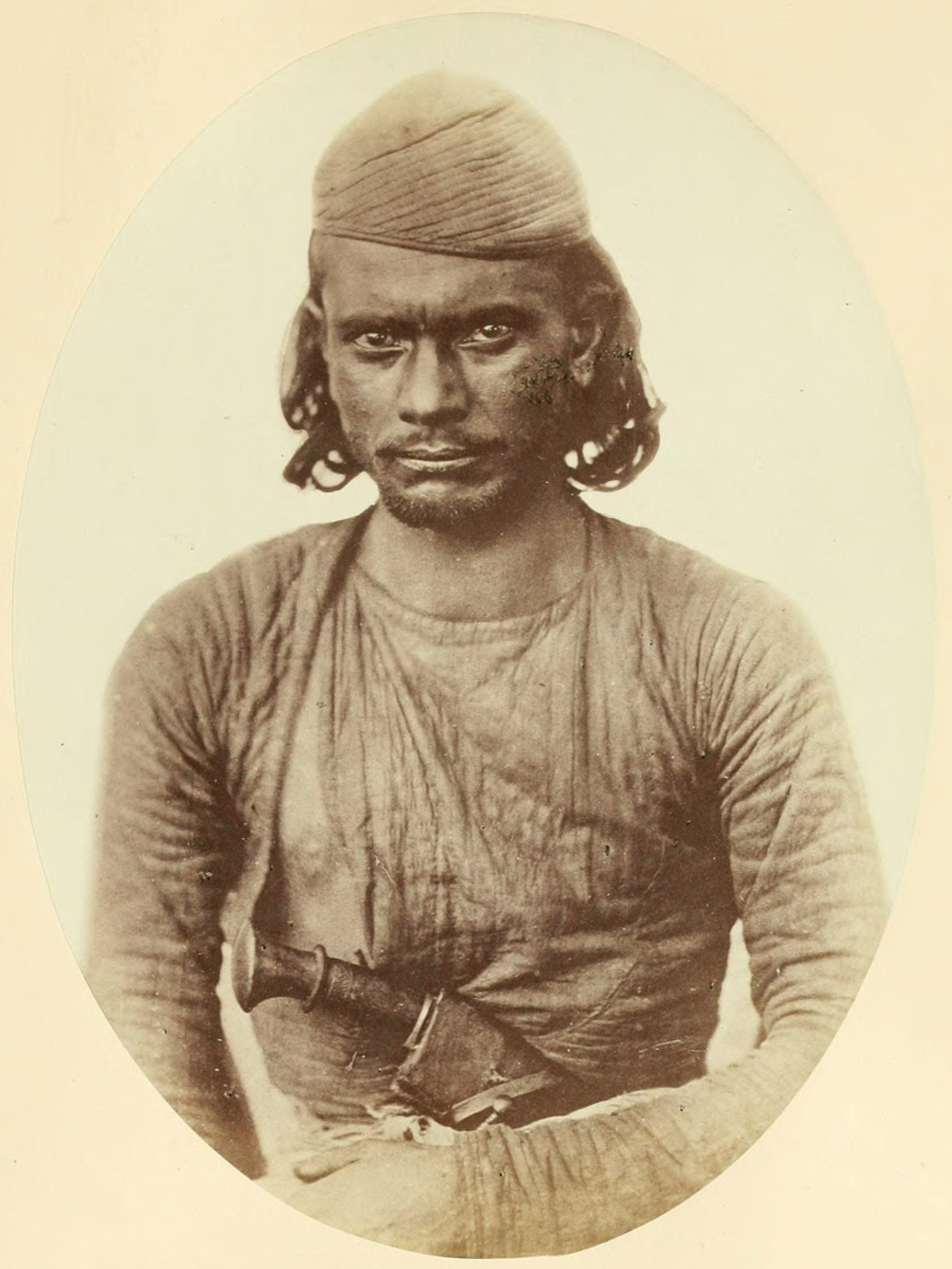 Khas male in Nepal circa 1860s by John Forbes Watson.